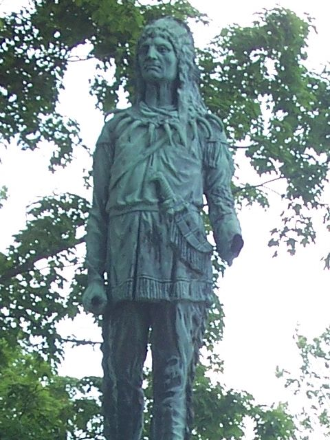 Passaconaway Statue in Edson Cemetery, Lowell, Massachusetts. Note this statue has been severely vandalized over the years, the head dress and many weapons removed.